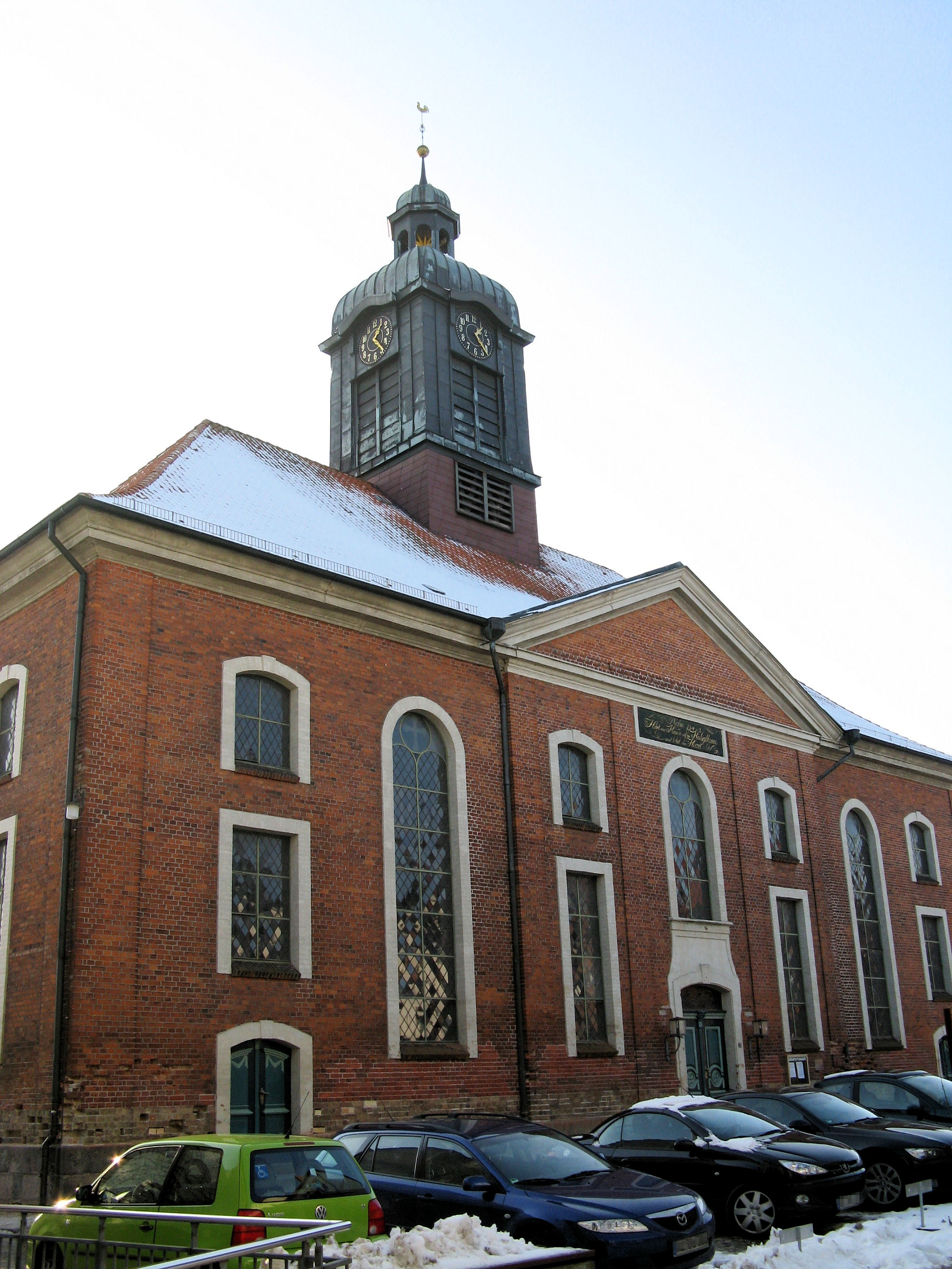 Church St. Petri in Ratzeburg, district Herzogtum Lauenburg, Schleswig-Holstein, Germany